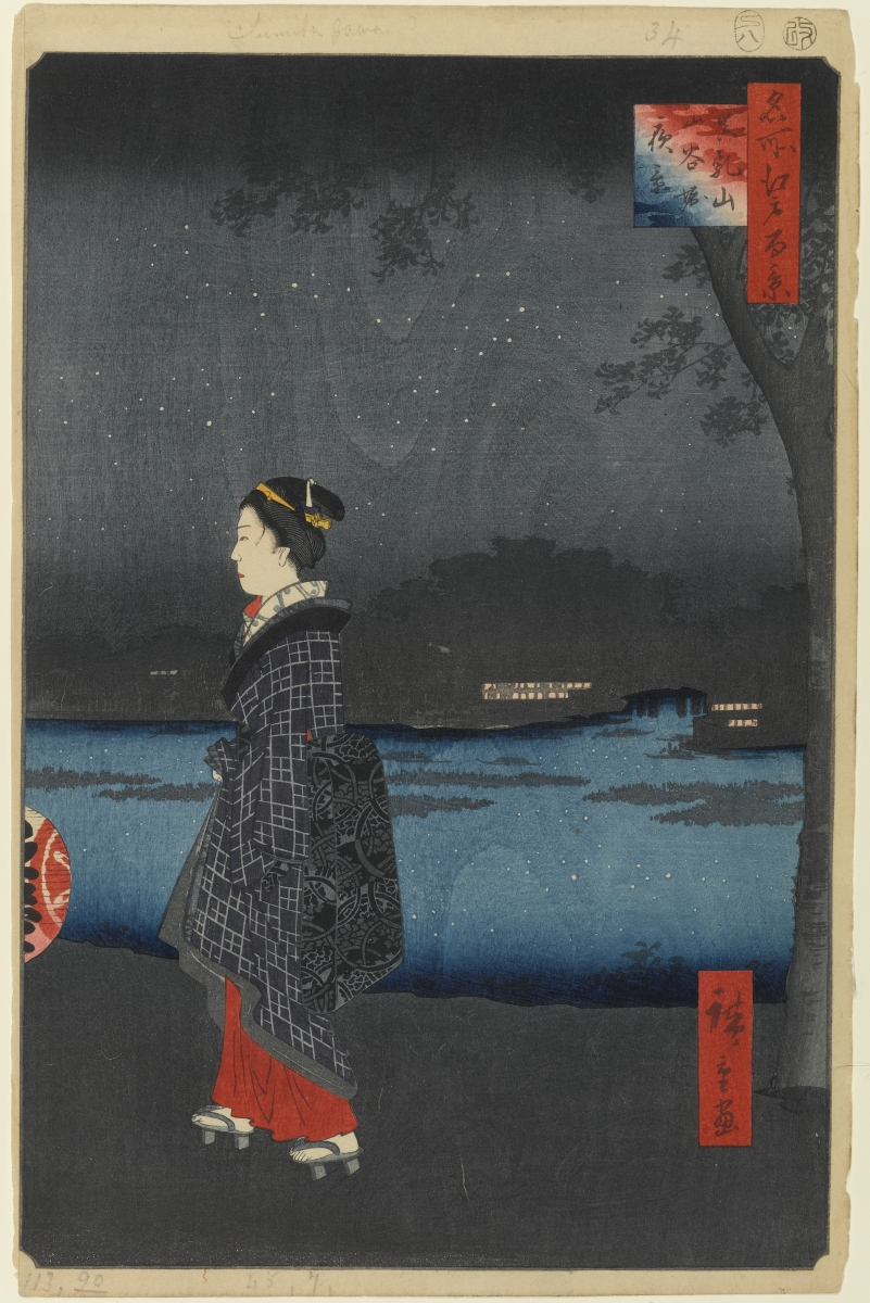 Part of the series One Hundred Famous Views of Edo, no. 034, part 1: Spring.